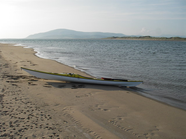 Black Combe from N. Walney The sands at the far Northern end of Walney Island are a great viewing point to look across the Duddon Estuary towards the "whale-like" Black Combe